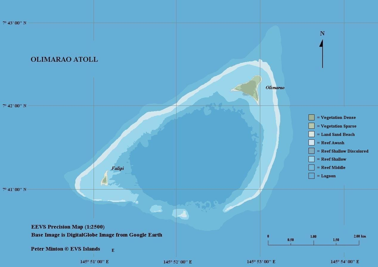 Olimarao Atoll, eastern Yap State, Caroline Islands, Federated States of Micronesia, Pacific Ocean